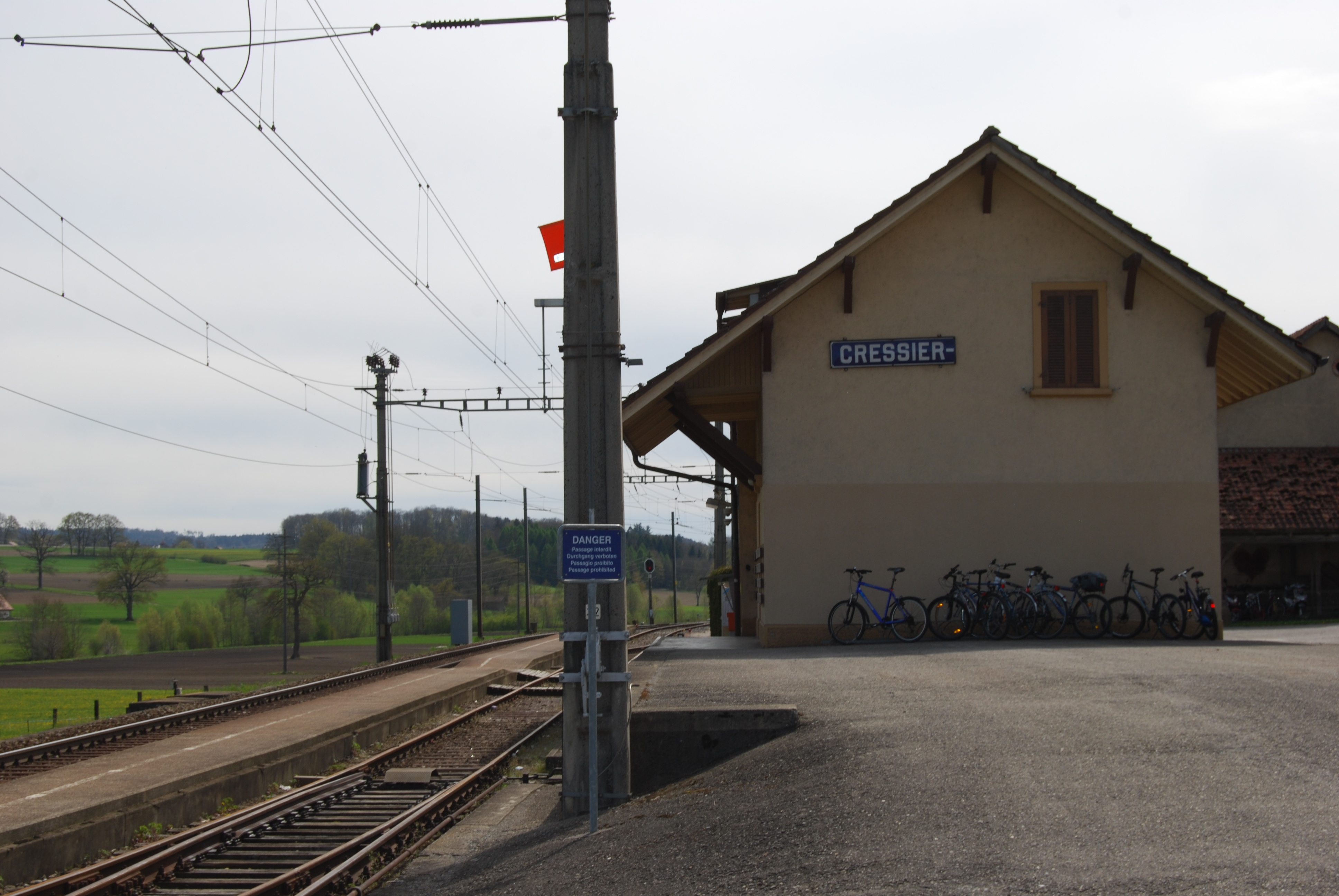 Trainstation of Cressier, Cressier, canton of Fribourg, Switzerland